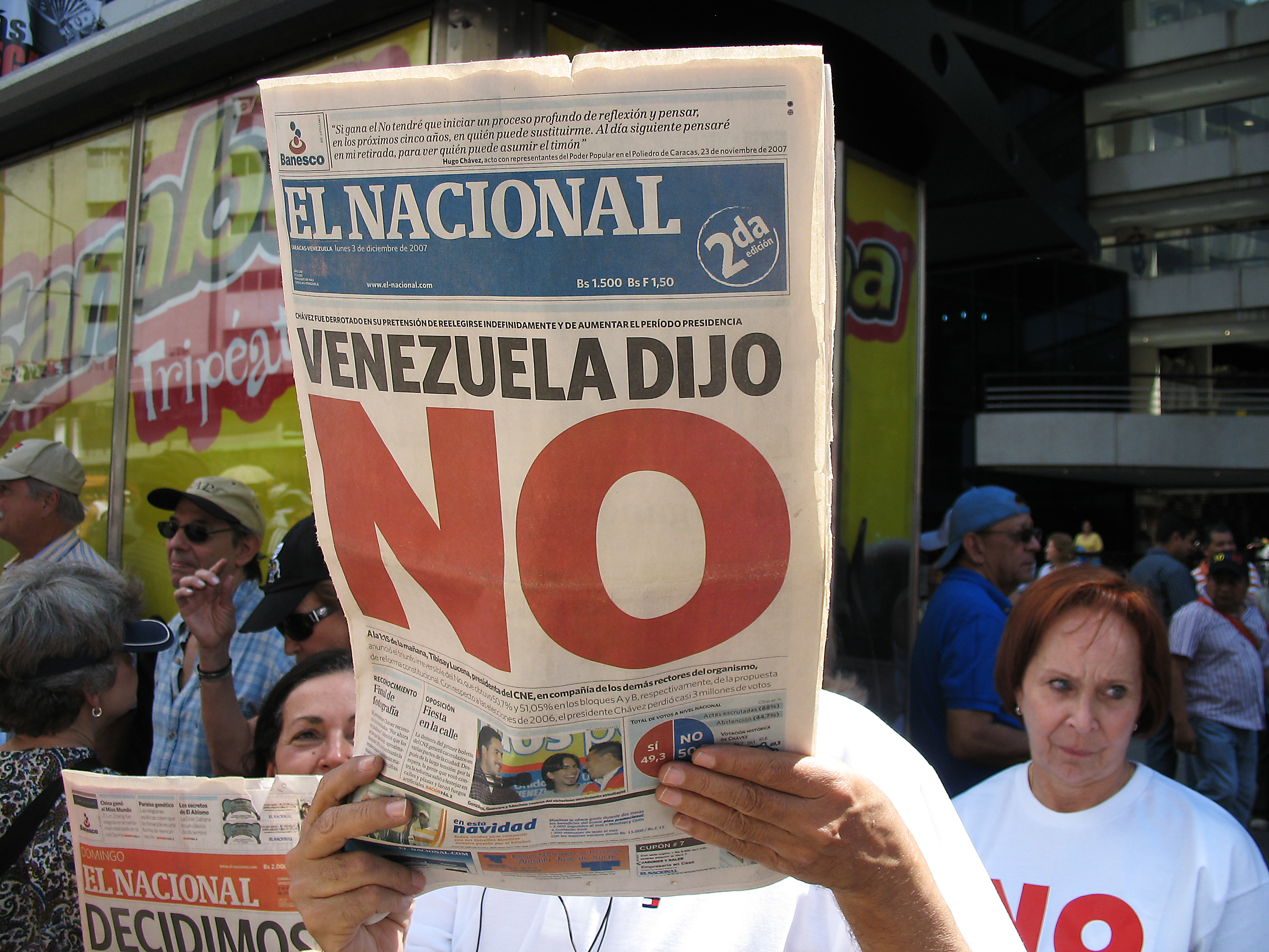 Headline from the day after Chávez lost the constitutional reform referendum, on Dec. 2, 2007.